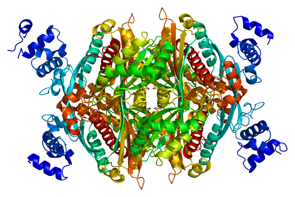 Structure of the HMGCR protein. Based on PyMOL rendering of PDB 1dq8.